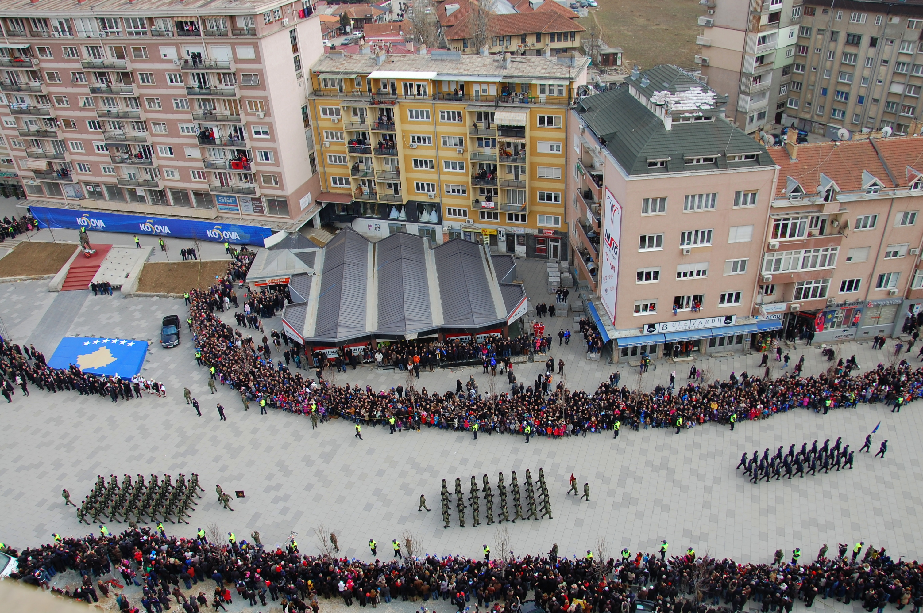 Prishtine